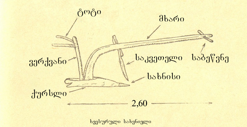 Khevsur Plough (sakhvnieli)